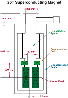 Schematic of a 20T superconducting magnet from Los Alamos National Laboratory.